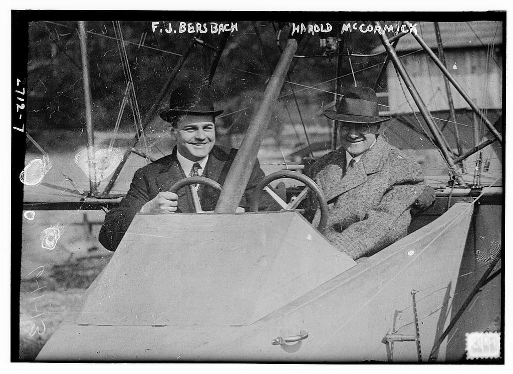 Bain News Service,, publisher. Frank John Bersbach and Harold Fowler McCormick circa 1913 [no date recorded on caption card] 1 negative : glass ; 5 x 7 in. or smaller. Notes: Title from unverified data provided by the Bain News Service on the negatives or caption cards. Forms part of: George Grantham Bain Collection (Library of Congress). Format: Glass negatives. Repository: Library of Congress, Prints and Photographs Division, Washington, D.C. 20540 USA, General information about the Bain Collection is available at Persistent URL: Call Number: LC-B2- 2712-7